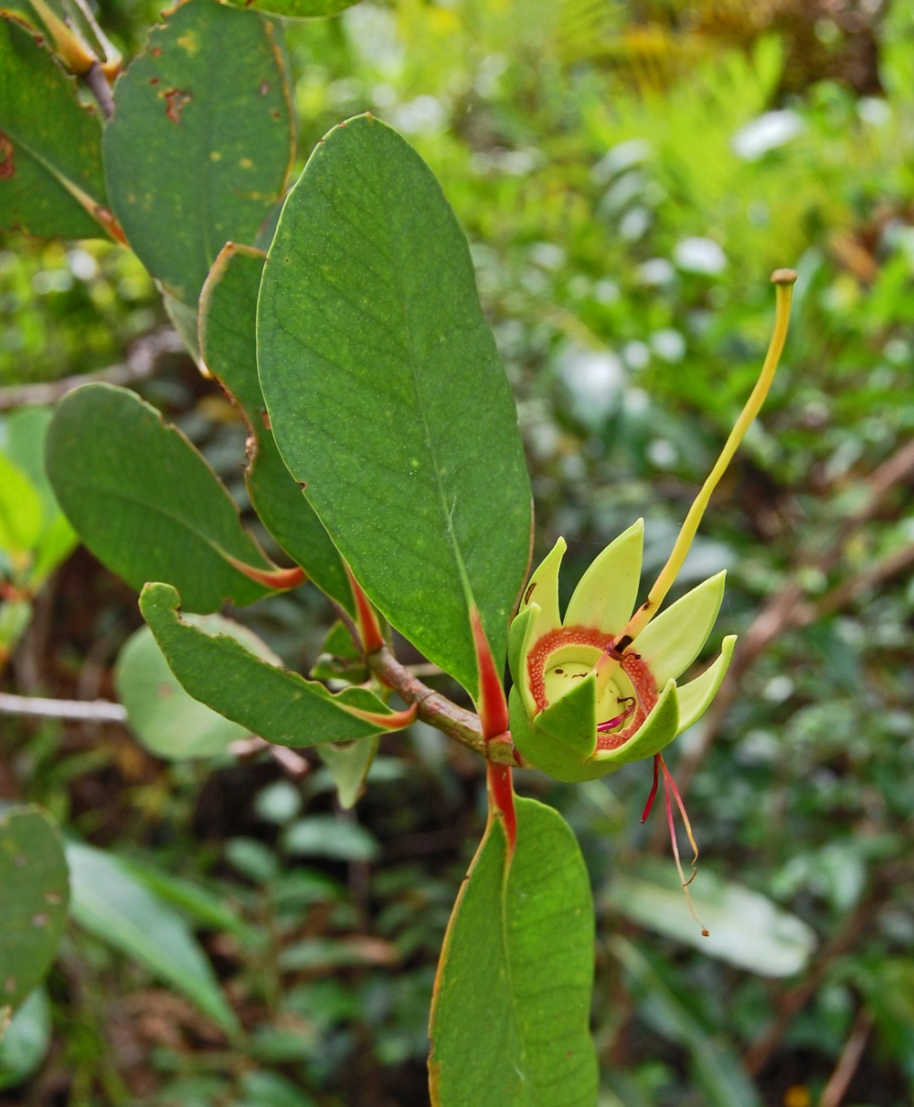 Sonneratia caseolaris flower, with corolla and anthers have shed. From Labuan Bakti, Simeulue, Indonesia.